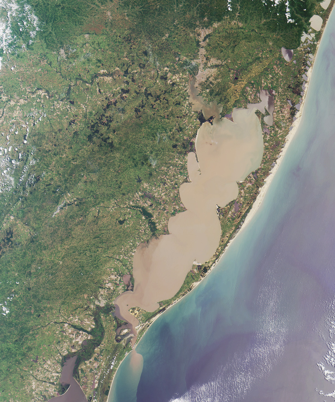 The "Lagoa dos Patos", in the Brazilian state of Rio Grande do Sul, translates to "the Duck Lagoon". It was named by 16th century Jesuit settlers, who asked the King of Spain to grant them title to the lagoon so that they could breed ducks. The King consented, but revoked his edict when he discovered that the "duck-pond" (measuring about 14,000 square kilometers) was one of the largest lagoonal systems in the world.